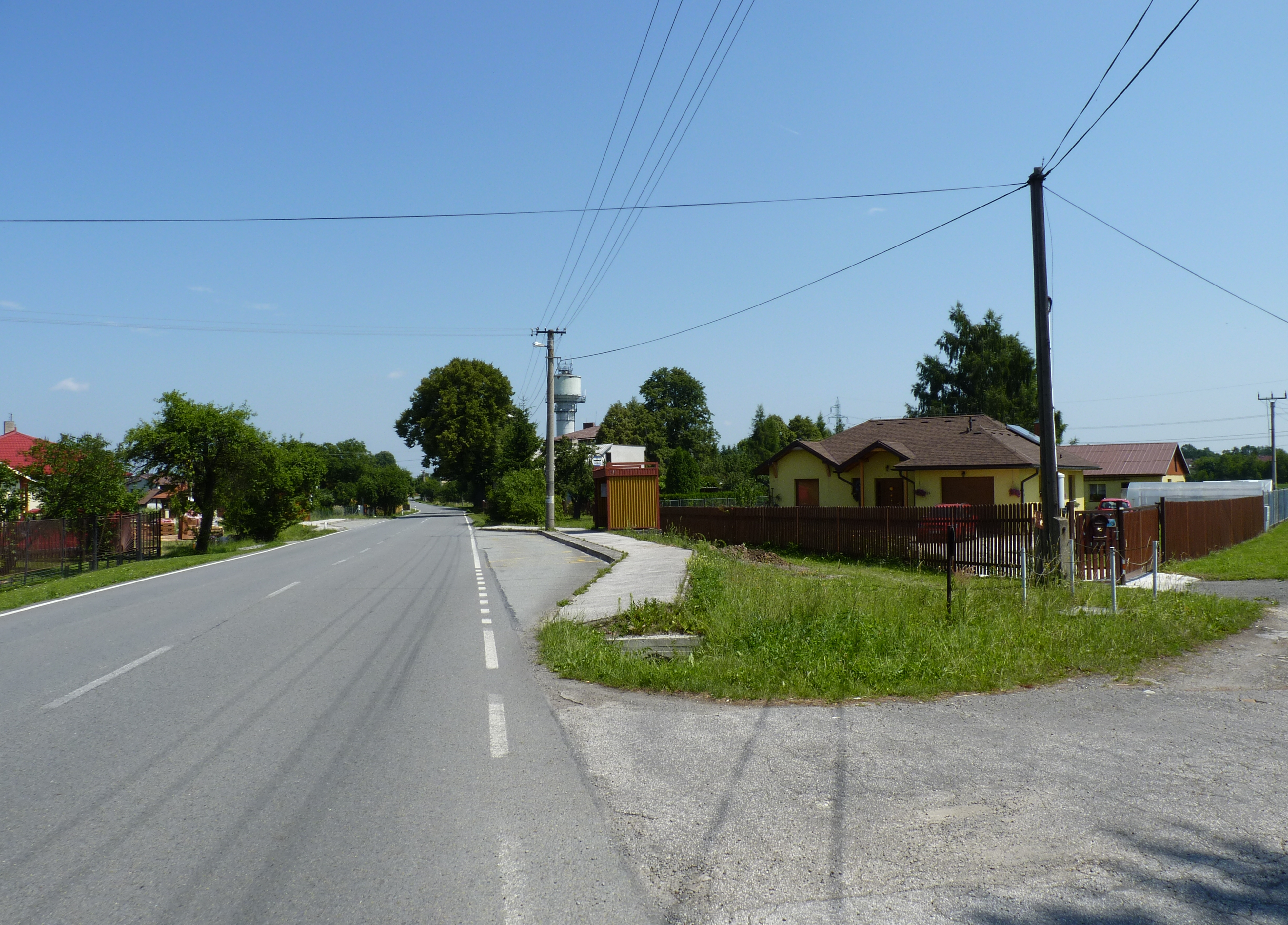 Dolní Lutyně. Karviná District, Moravian-Silesian Region, Czech Republic